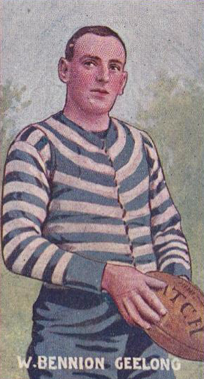 Cigarette card of Bill Bennion from the Sniders & Abrahams 1906 series